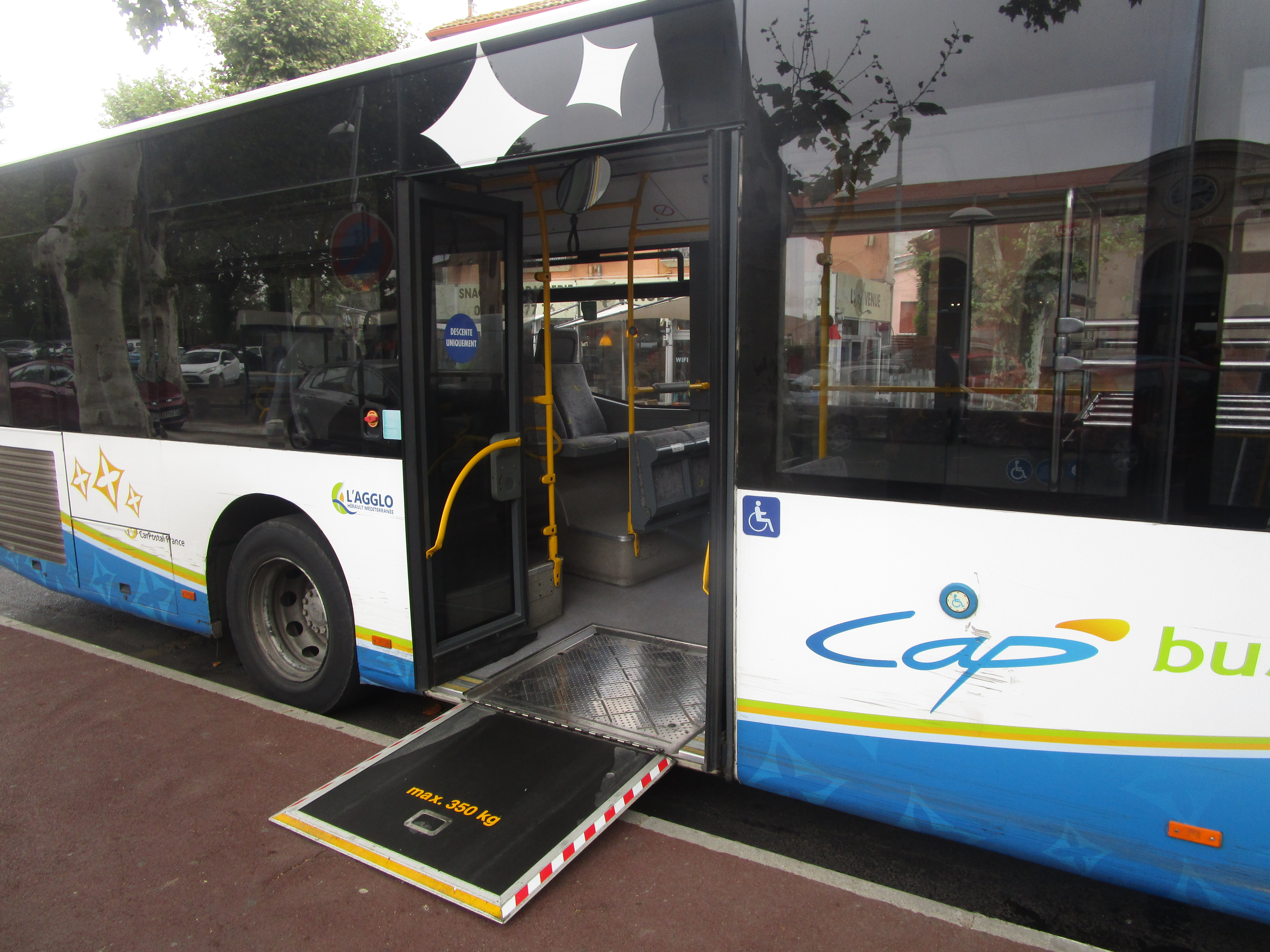 A Mercedes-Benz Citaro C1 Facelift (n°898 of CarPostal Agde) with the acces ramp for disabled out.